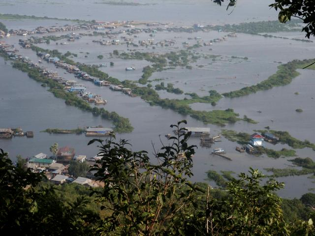 aerial view